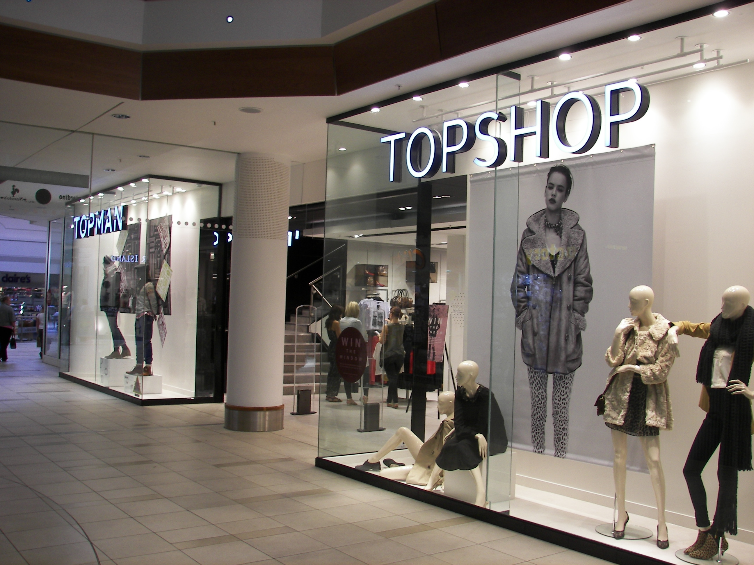 Topshop Shot